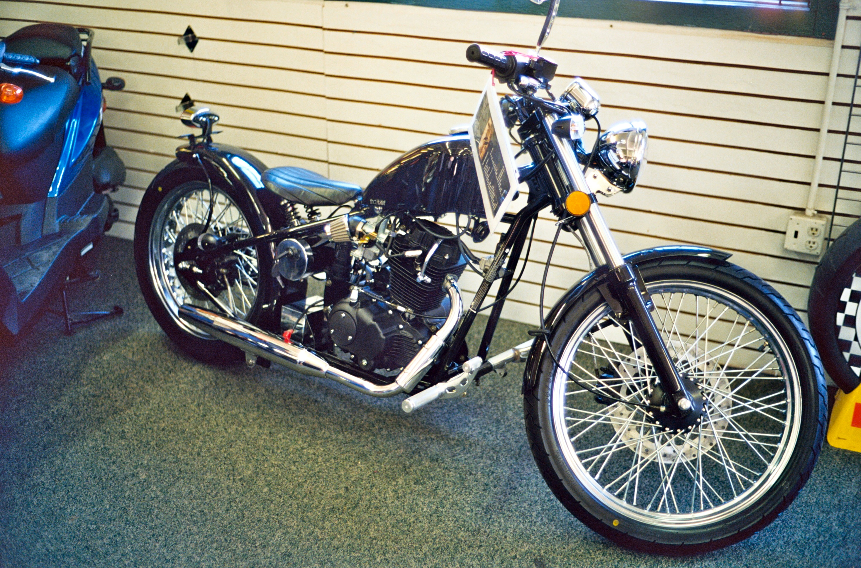 Cleveland CycleWerks Tha Heist At Seattle Cycle Center 10201 Aurora Avenue North Seattle, WA 98133